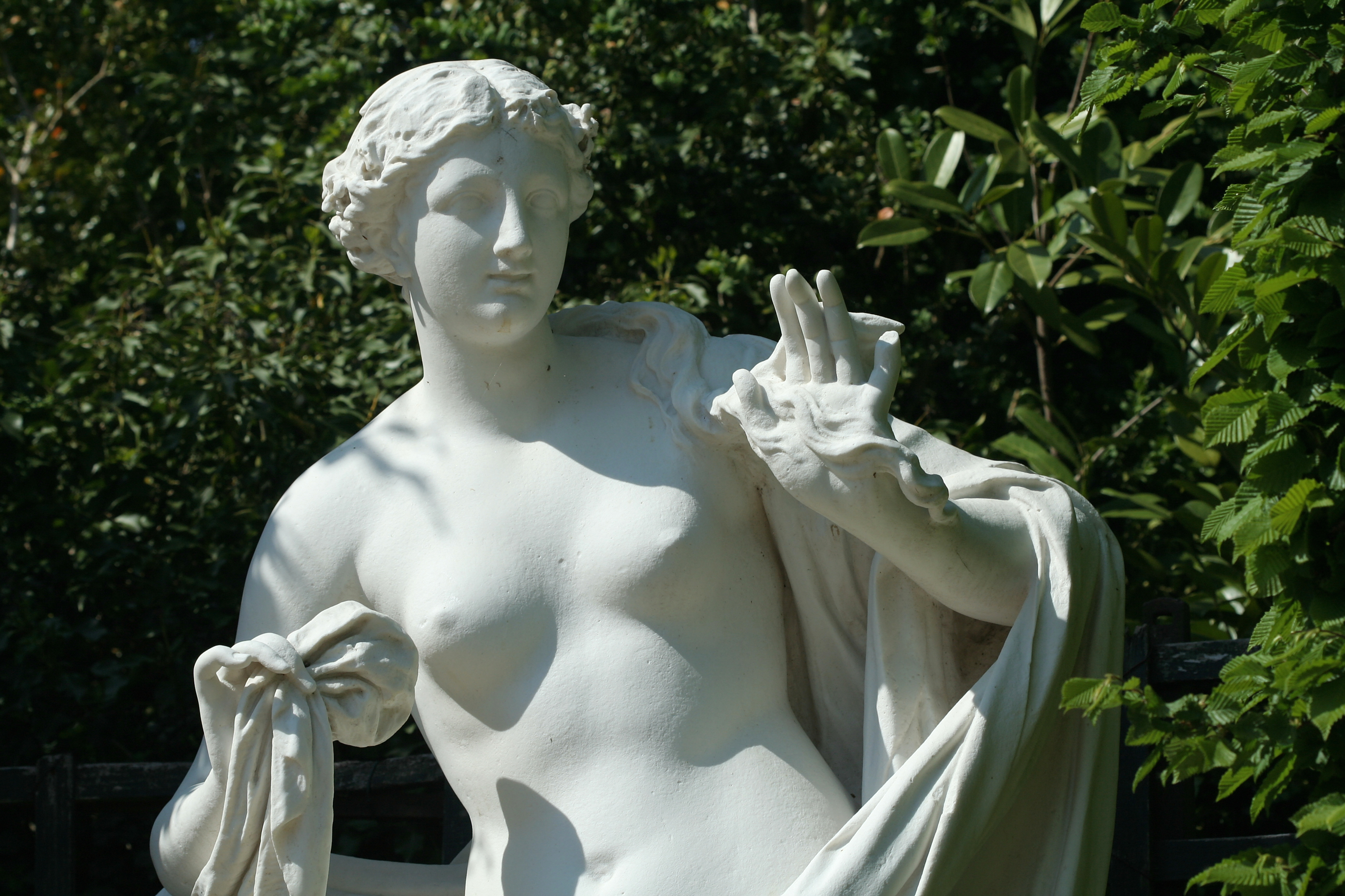 The Nereid Galatea listening with surprise to the shepherd Acis playing his flute.